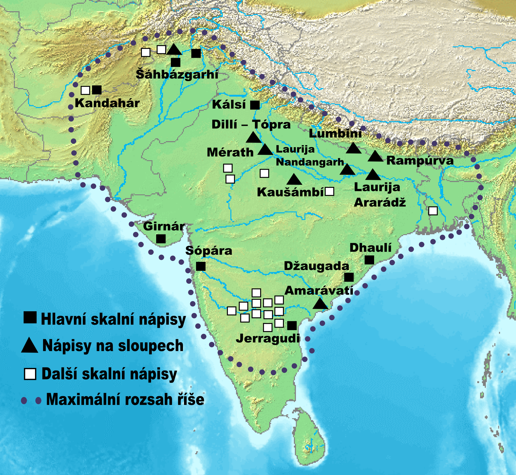 Edicts of Ashoka with legend in Czech.